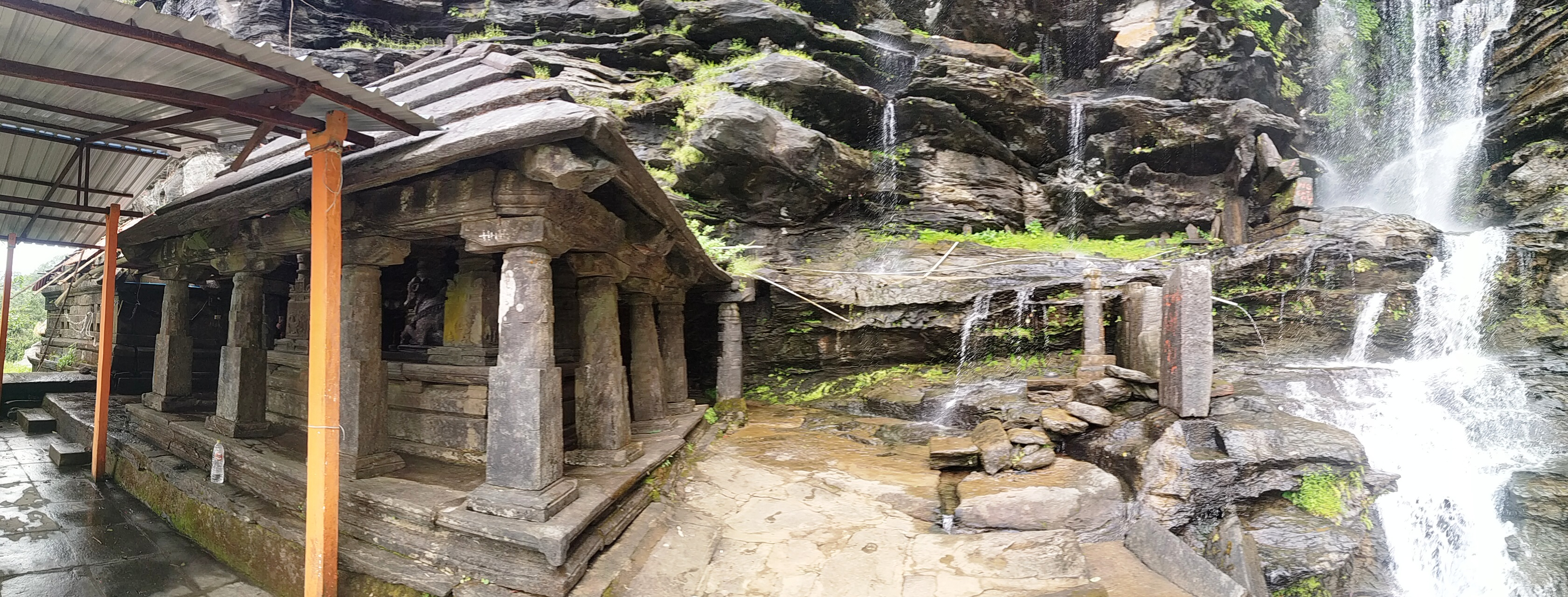 ದೇವಸ್ಥಾನ ಮತ್ತು ಜಲಪಾತ